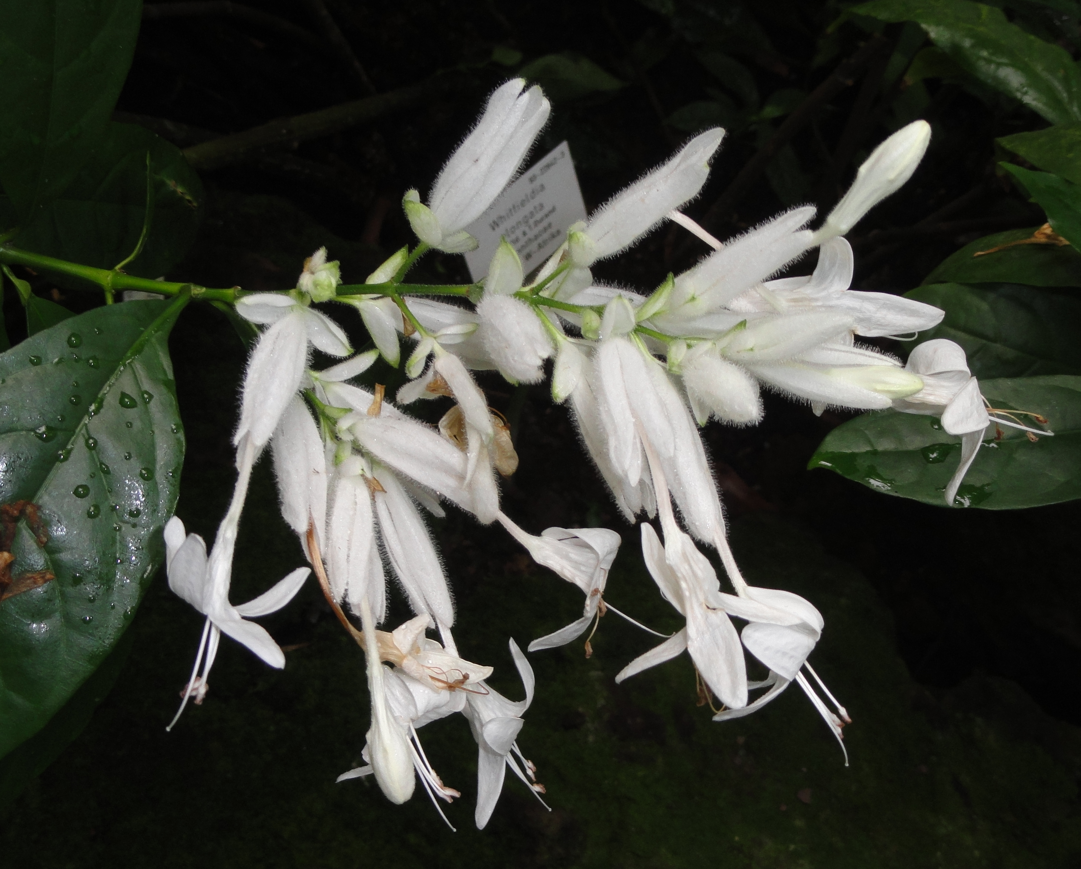 Botanical specimen in the Palmengarten, Frankfurt am Main, Germany.